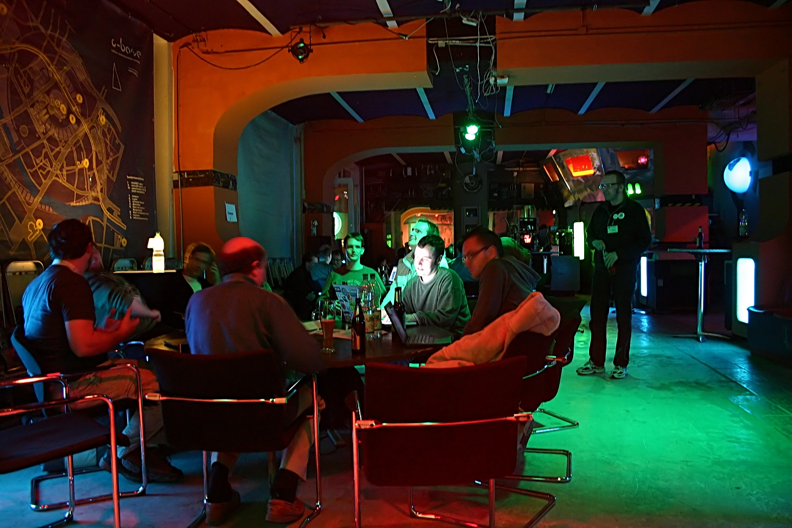 Wikimedia Conference Berlin 2009 - Meeting of MediaWiki developers in the "cbase"